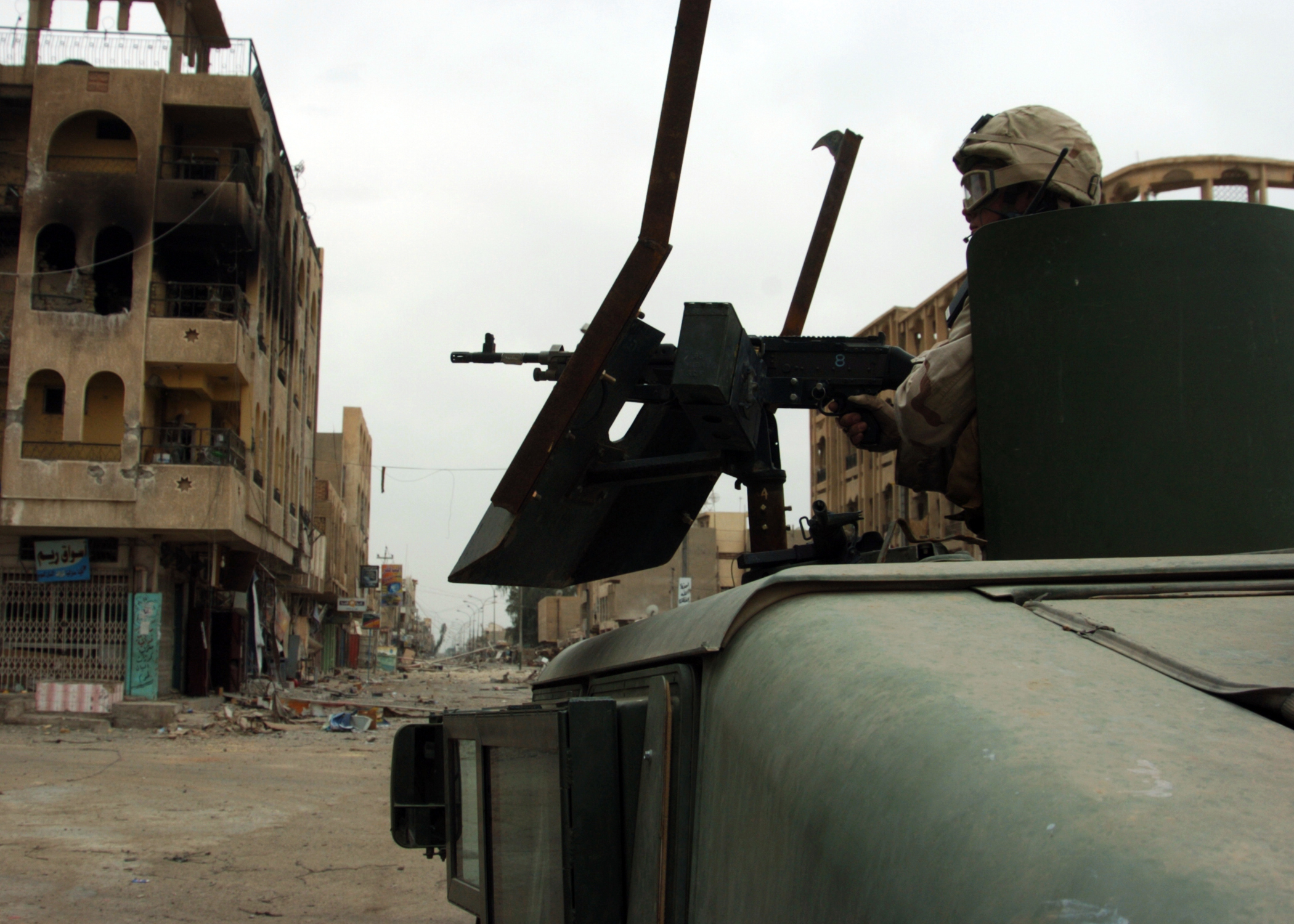 Fallujah, Iraq (Nov. 17, 2004) - Construction Mechanic 3rd Class Aaron Wolken mans a turret mounted M-240B machine gun atop a High Mobility Multipurpose Wheeled Vehicle (HMMWV) to provide security while Seabees assigned to Naval Mobile Construction Battalion Four (NMCB-4) clear debris from the streets of Fallujah, Iraq. NMCB-4 is homeported in Port Hueneme, California and is currently deployed in support of Operation Al Fajr (New Dawn). Operation Al Fajr is an offensive operation to eradicate enemy forces within the city of Fallujah in support of continuing security and stabilization operations in the Al Anbar province of Iraq. U.S. Navy photo by Photographer's Mate 2nd Class Philip Forrest (RELEASED)